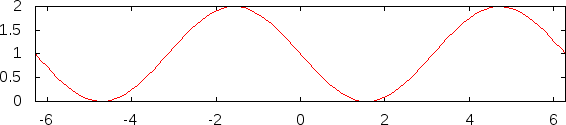 Plot of the coversin function.